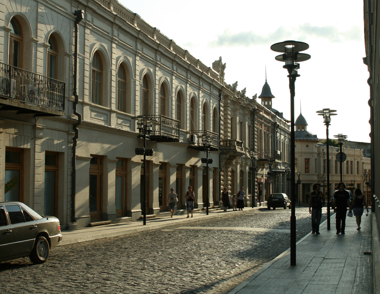 Kutaisi. A renovated downtown street